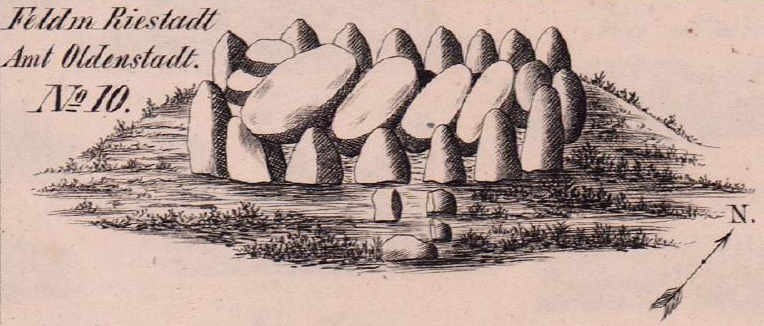 Megalithic tomb near Riestedt, Sprockhoff-No. 796